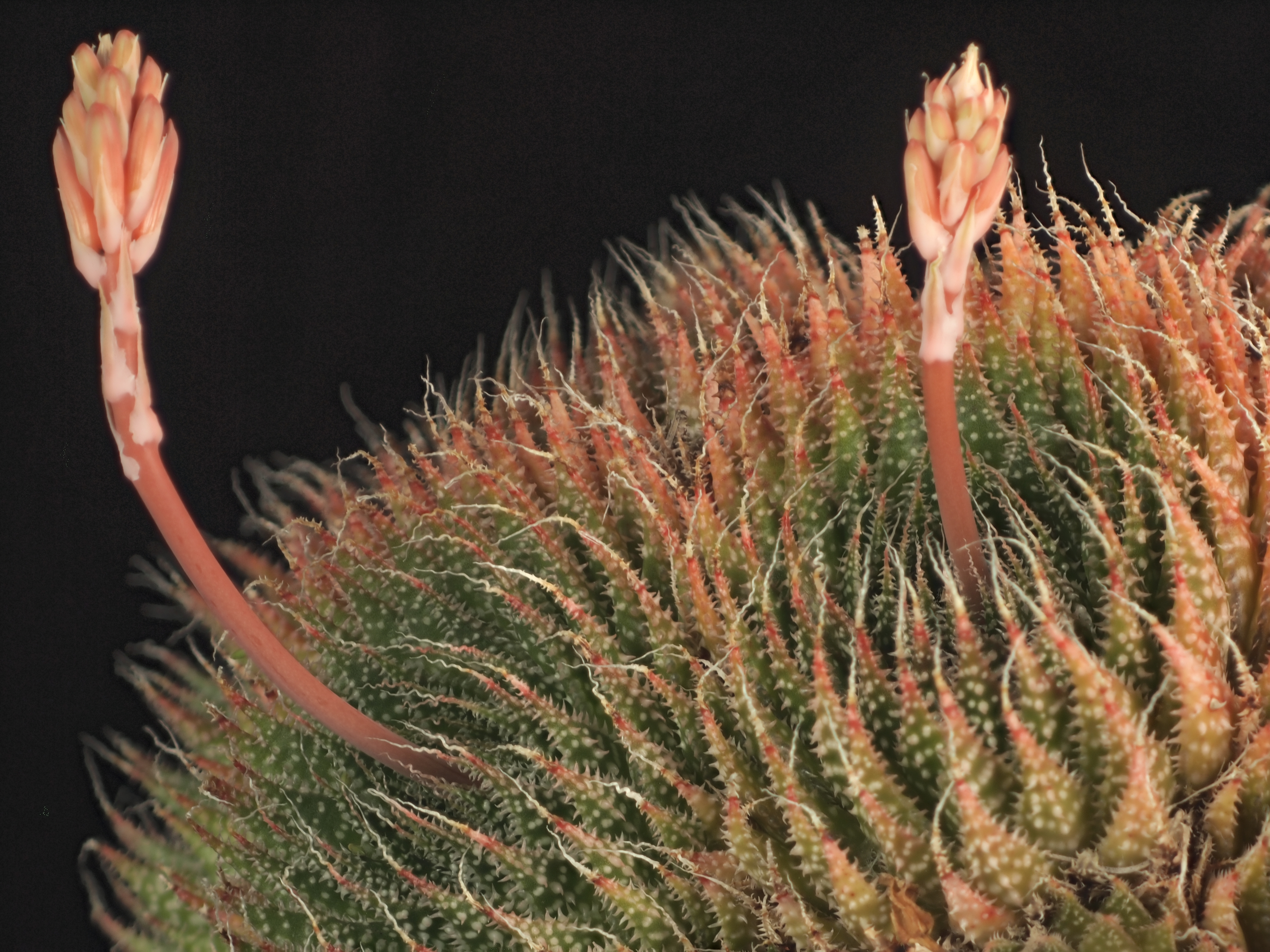 Aloe aristata—lace aloe. "This small aloe is often cultivated as a house plant. It produces offsets regularly that can be carefully detached and replanted. If the offset has only a few roots, it is better to wait a few days to make sure that all the cuts are dry before replanting it. There is anecdotal evidence that plants kept in smaller pots produce more offsets. the Pondo people use the juice of Aloe aristata mixed with water to wash their bodies for its tonic and refreshing effect."—Be Amazed website . "Aristata" means "awned", a feature readily observable in the focus stack.